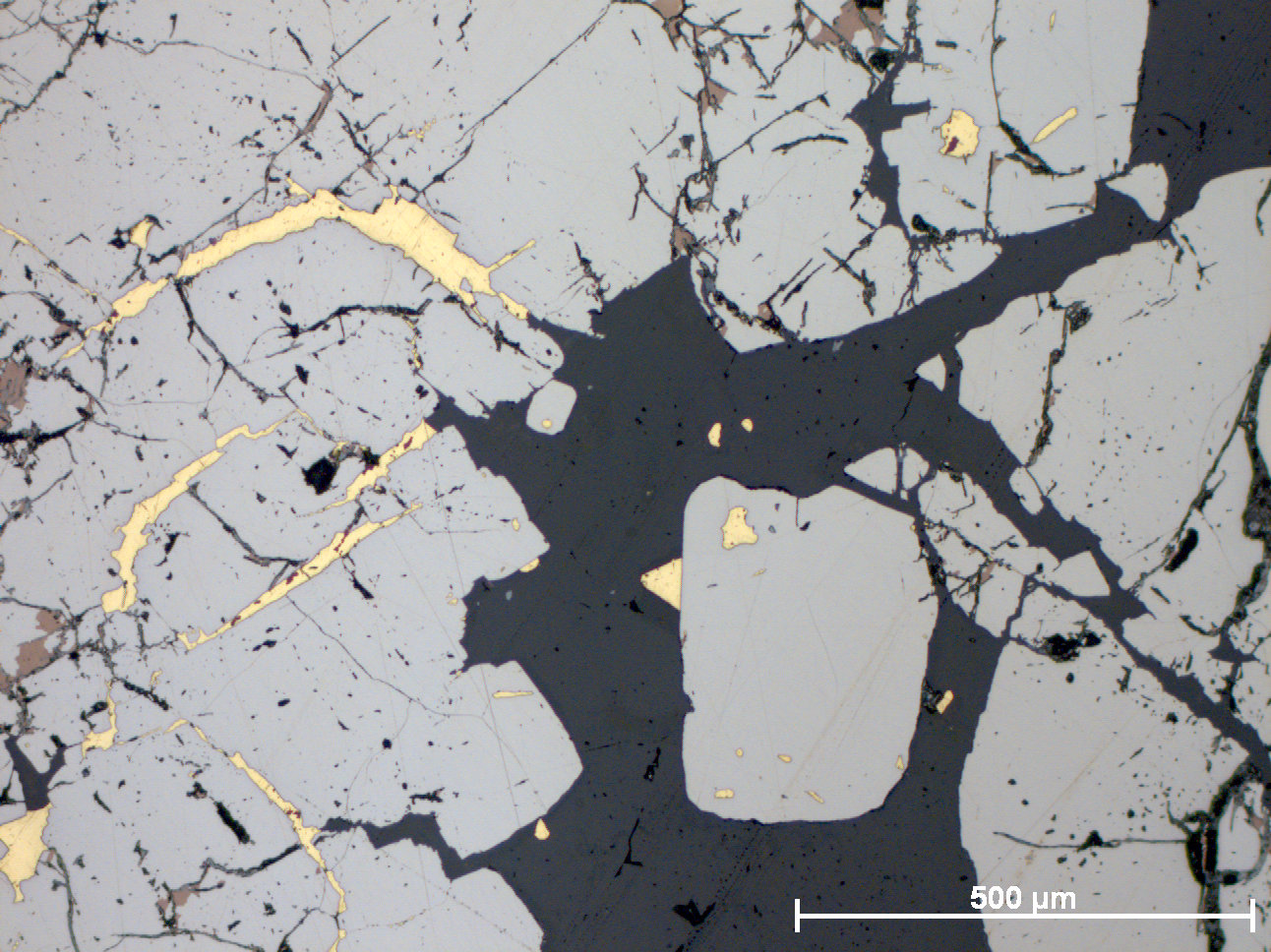 Native gold (bright yellow) on / between pyrite crystals (pale yellow). Dark grey mineral is quartz.